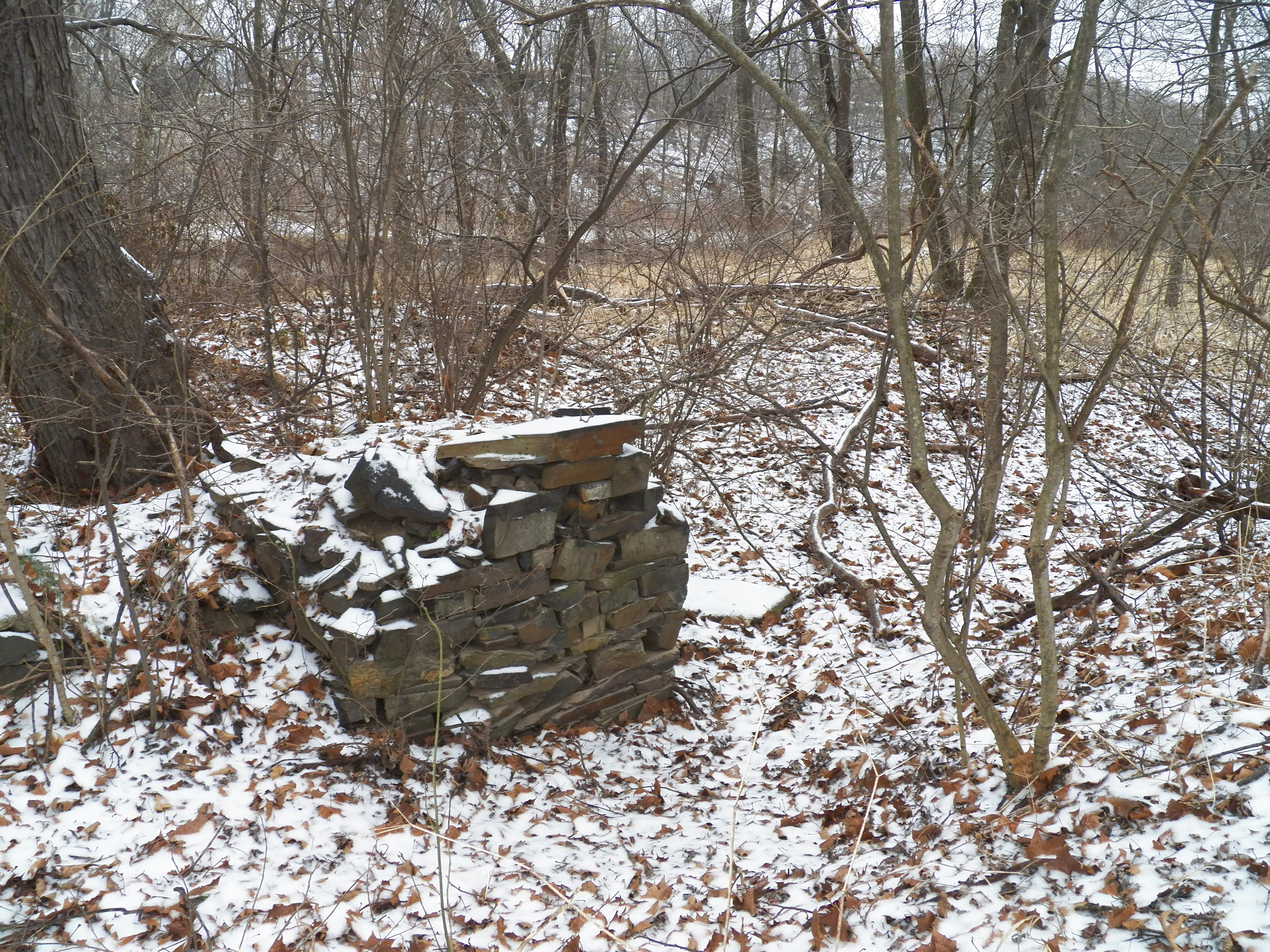 The southeast corner housed the grist mill, the original part of the mill.